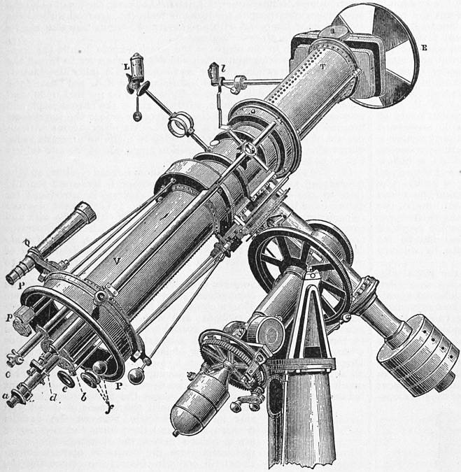 EB1911 - Heliometer - Fig. 11, Repsolds completed a new heliometer for Yale College, New Haven, USA. The object-glass is of 6 inch aperture and 98 inch focal length. The mounting, the tube, objective-cell, slides, &c., are all of steel. —from EB1911